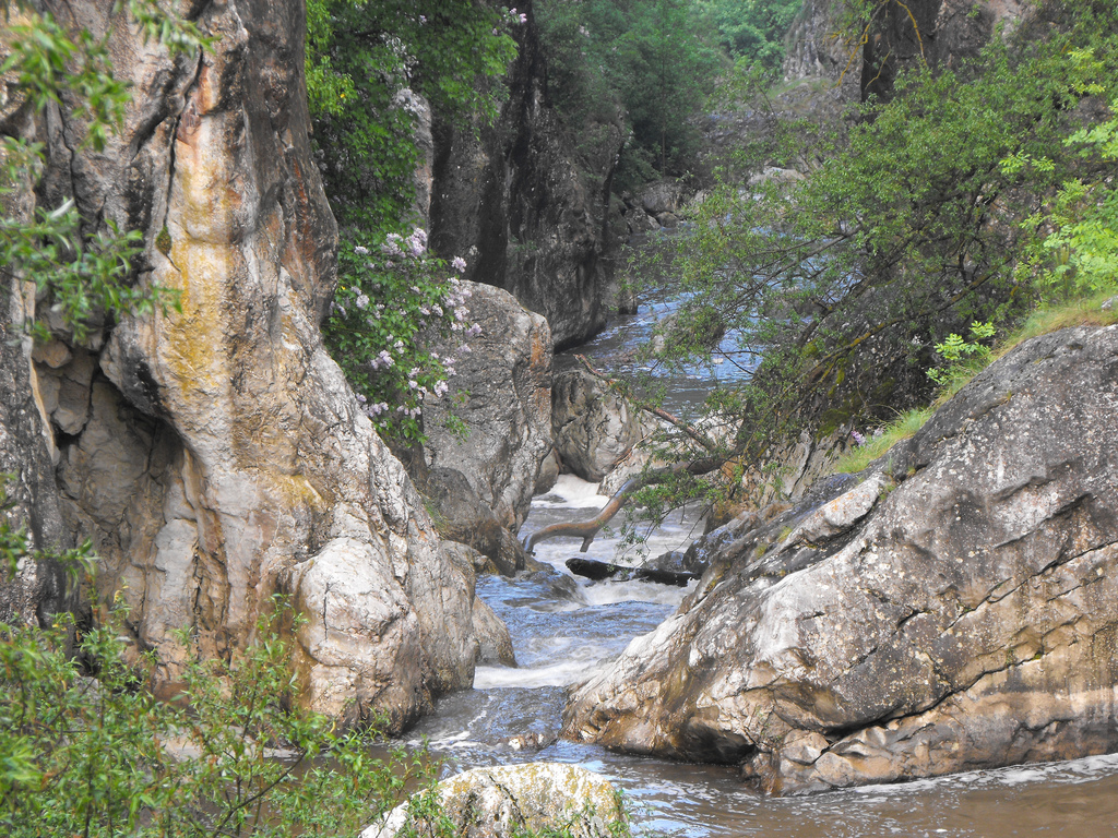 The gorge of river Erma, near Trun, Bulgaria.